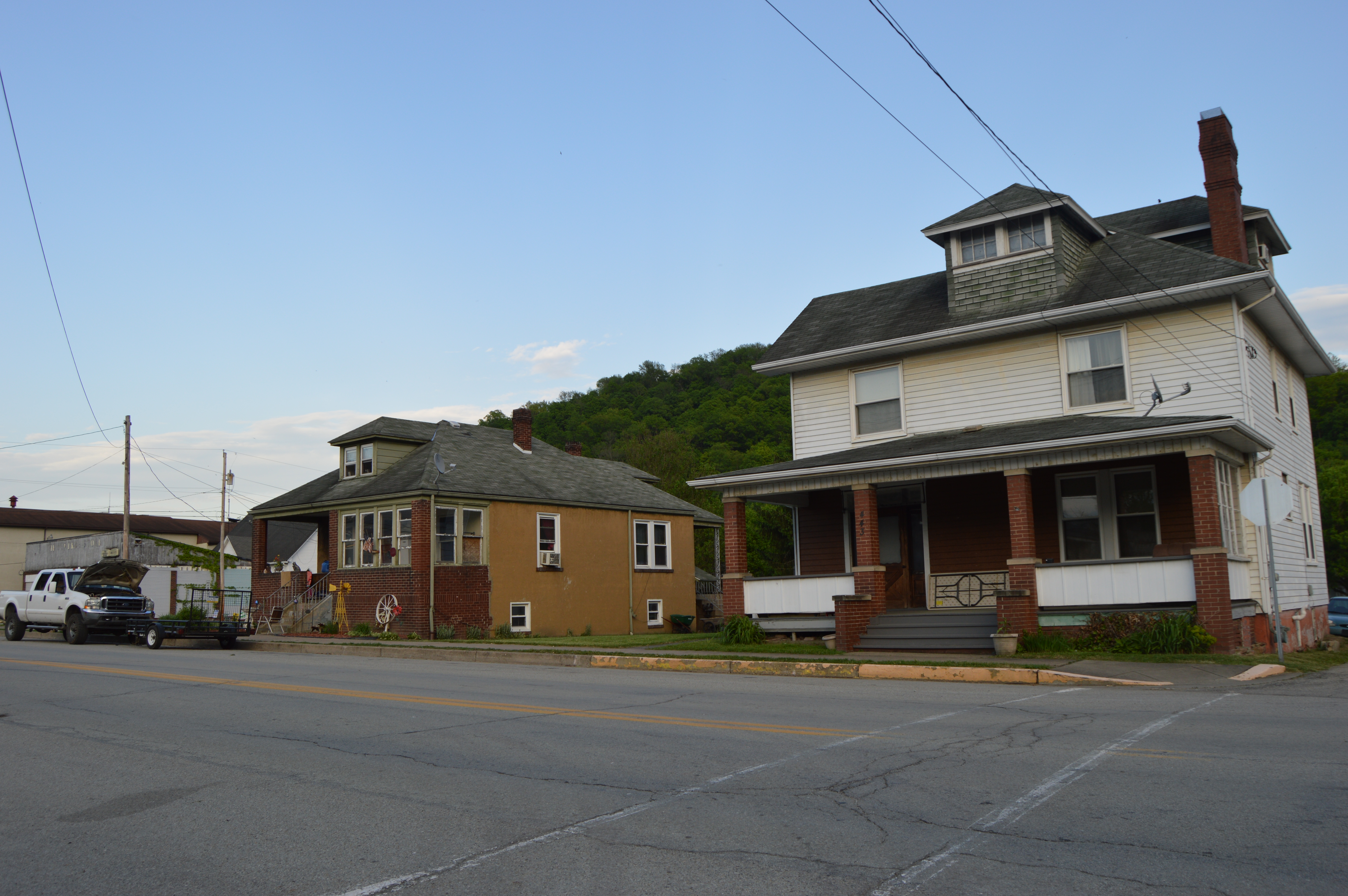 Houses on the southern side of Center Street east of the South Street intersection in Clarksville, Pennsylvania, United States.